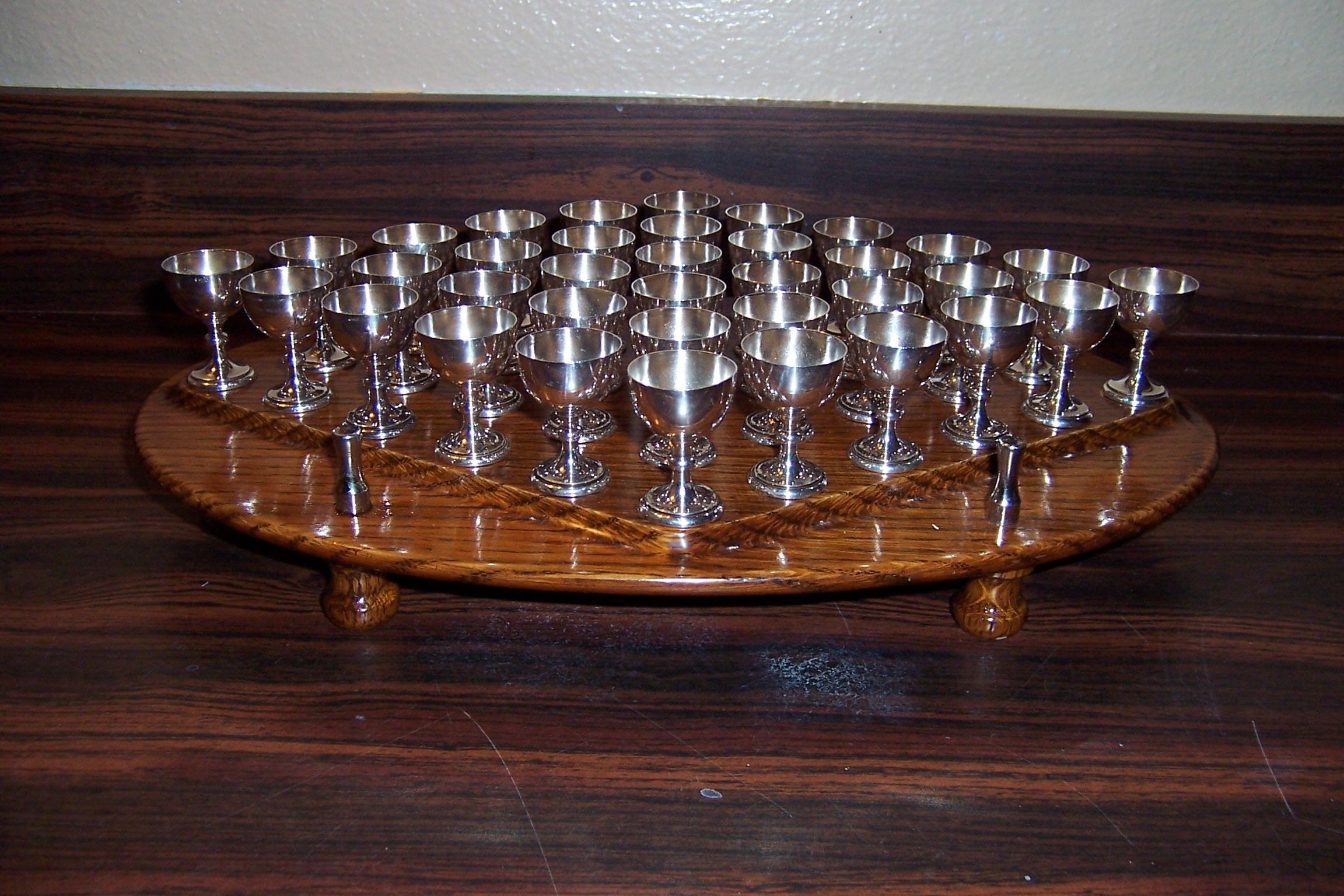 a tray of communion cups, made c. 1950